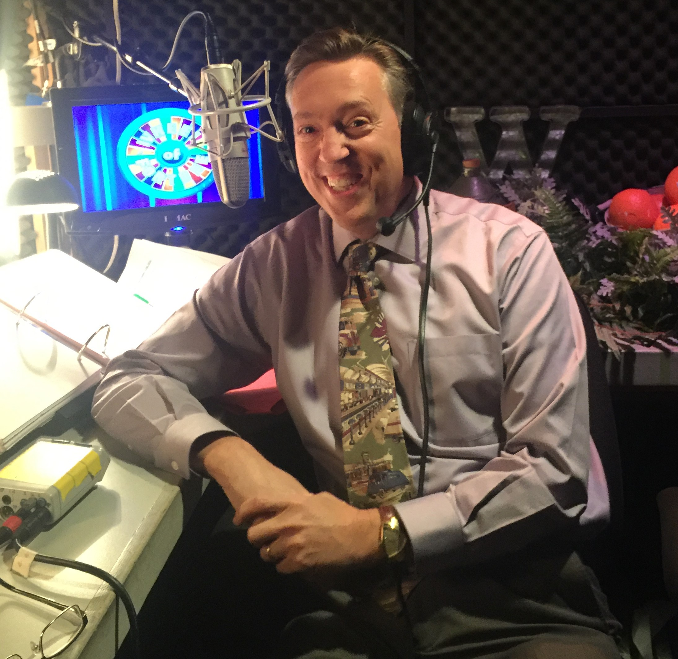 Picture of Jim Thornton, announcer on wheel of Fortune, shortly before a taping.